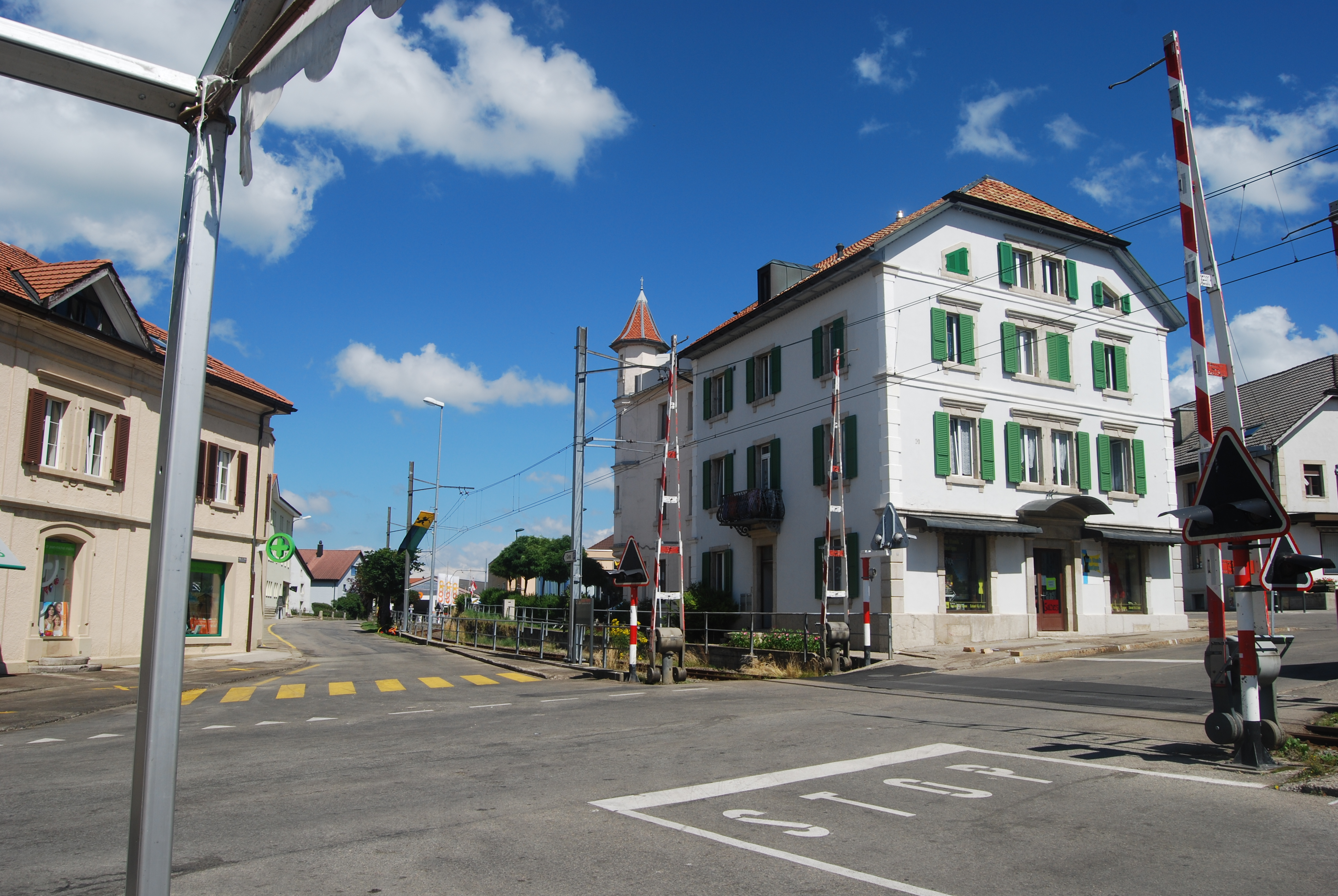 Level crossing at Saignelégier, canton of Jura, SwitzerlandEsperanto: Samnivela fervojtransirejo en Saignelégier, Kantono Ĵuraso, Svislando